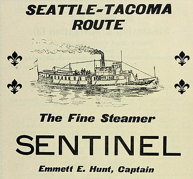 Advertisement for steamboat Sentinel, published in Polk's directory for Seattle, 1901.